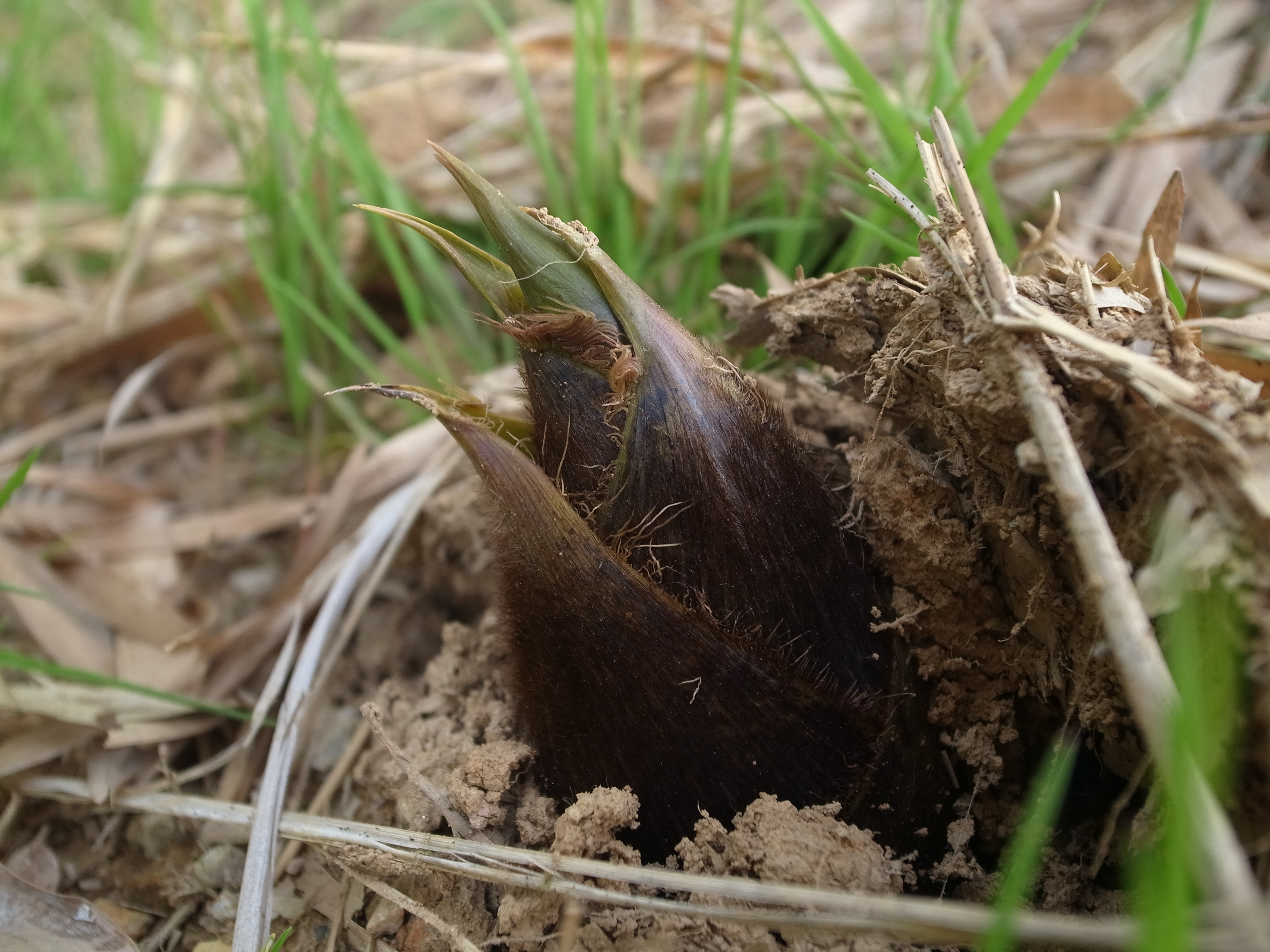 Bamboo shoot